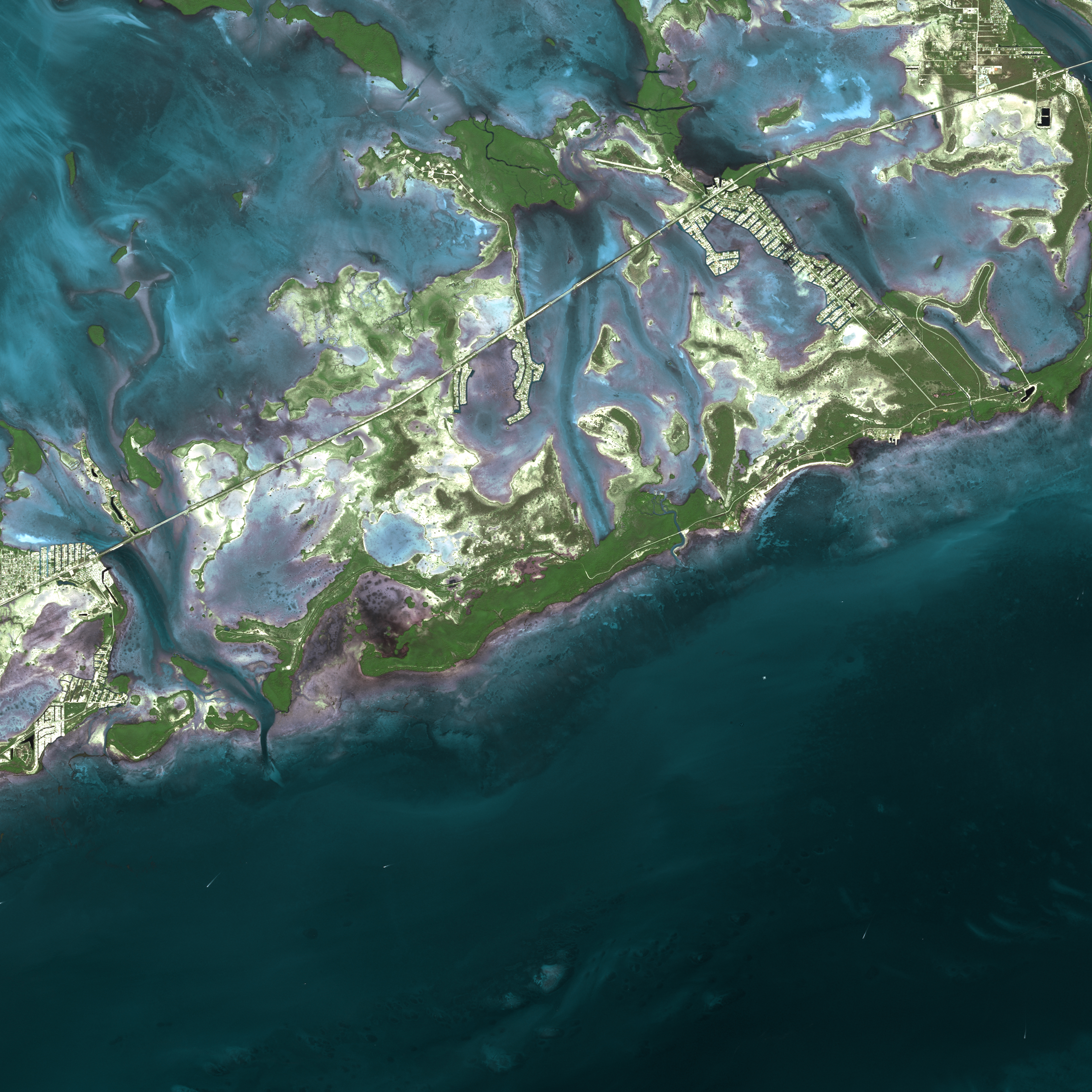 Florida Keys by SPOT Satellite